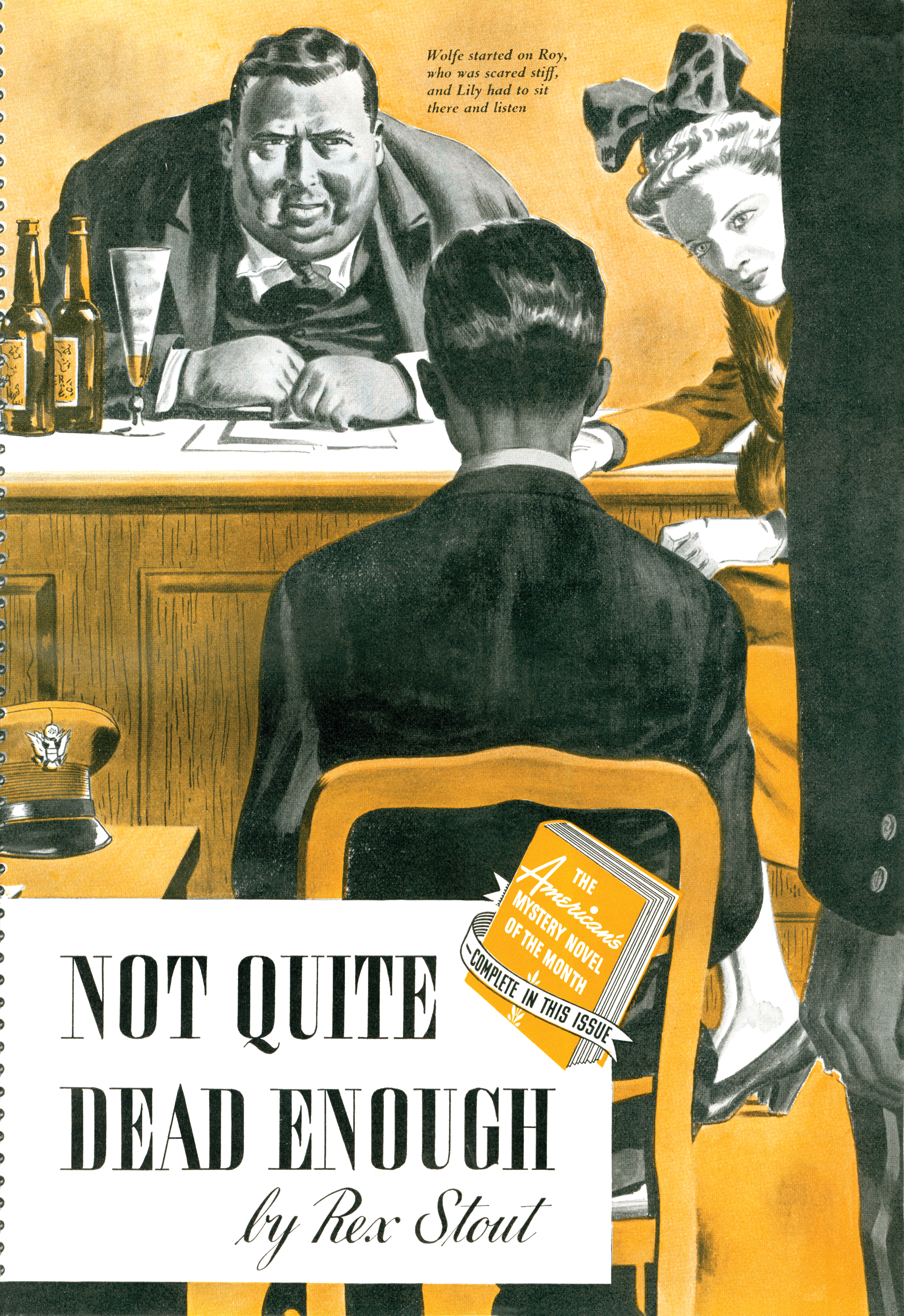 Title illustration for "Not Quite Dead Enough", a Nero Wolfe novella by Rex Stout that first appeared in The American Magazine